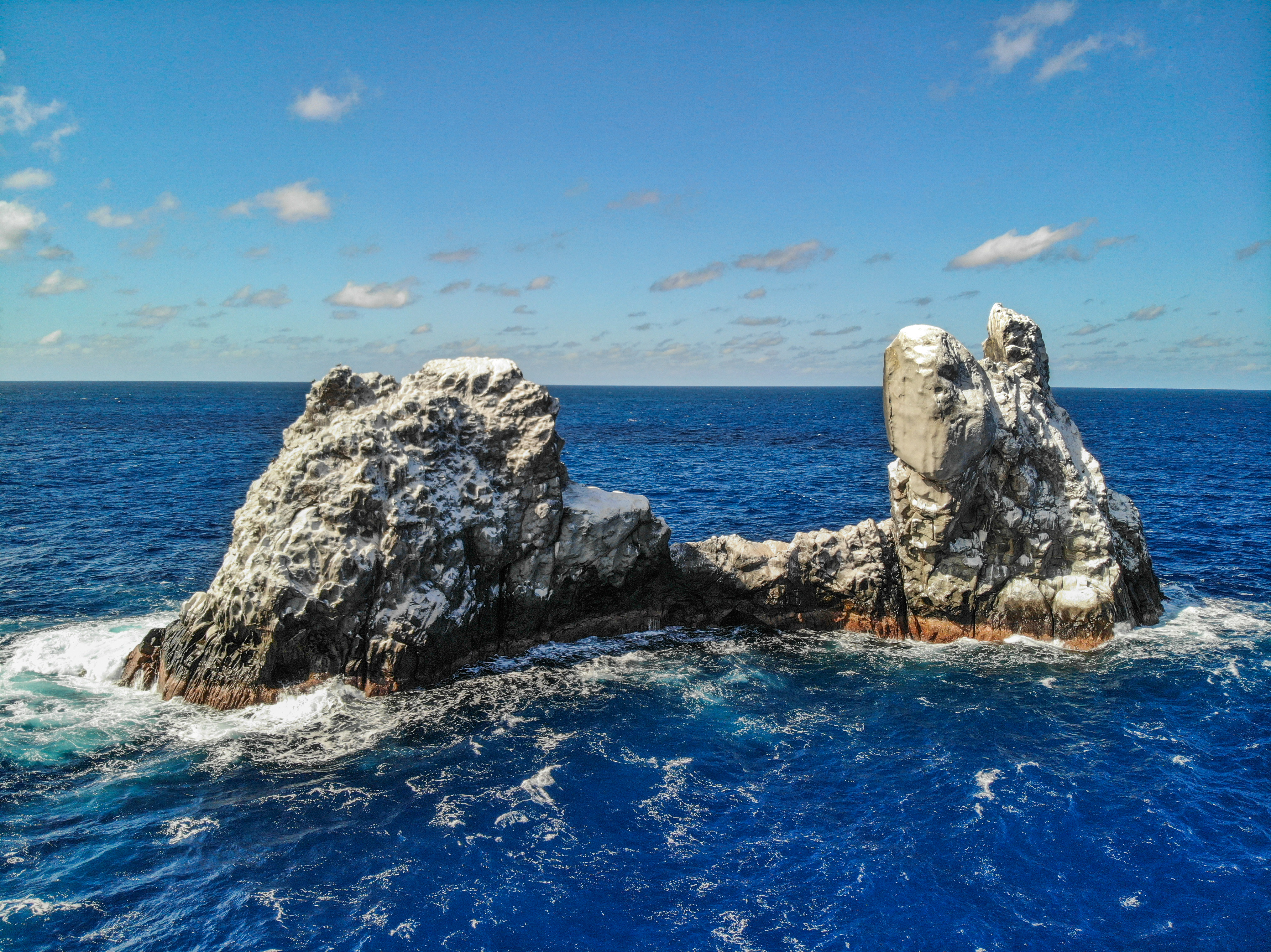 A photo took using Drone of Roca Partida